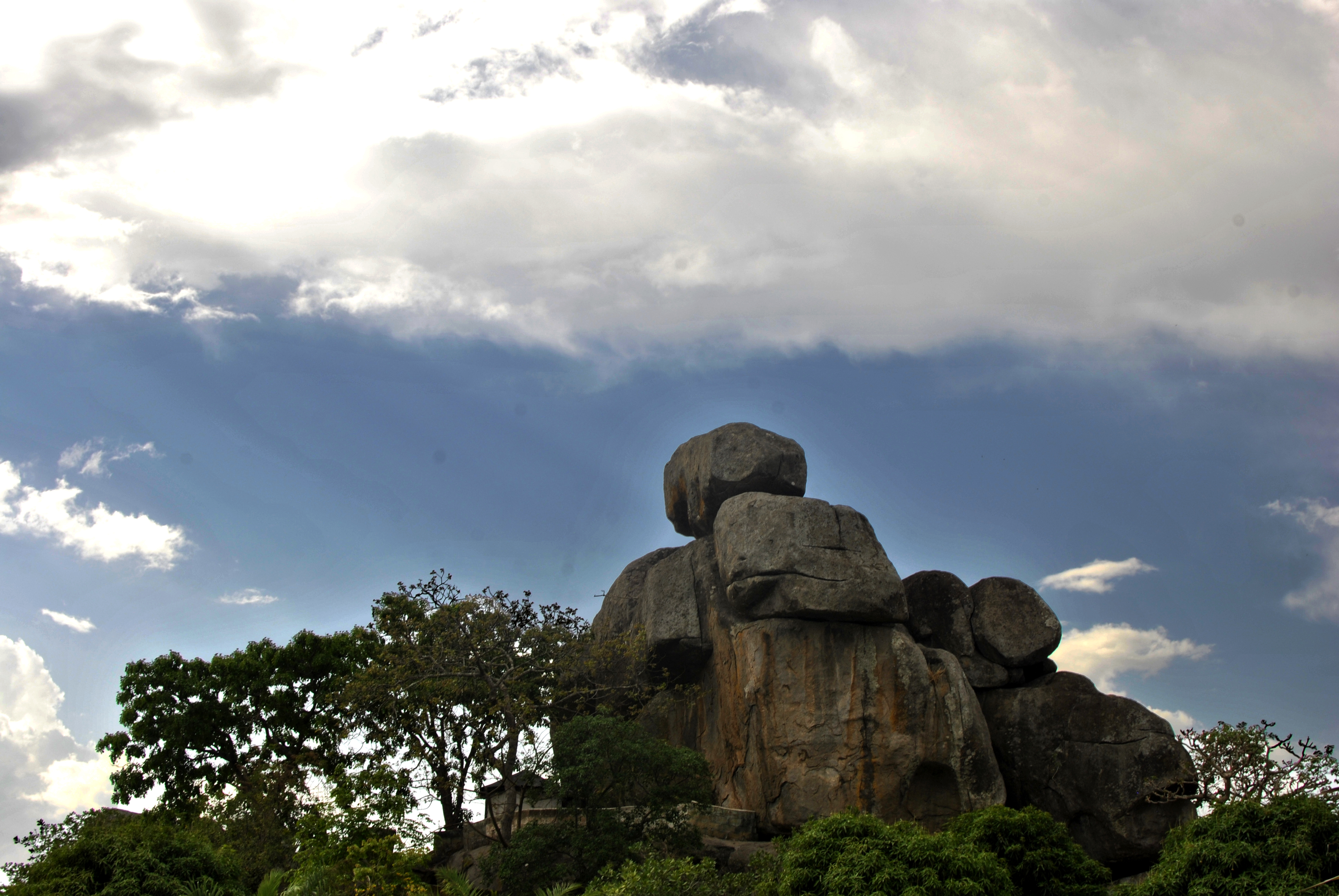 Moshra Gardens This artistic arrangement of rocks upon each other is one of the numerous natural formations of igneous rocks at Moshra gardens located in Okeho, Oyo State, Nigeria. The scenic outcrops were sculpted by the weathering forces of nature into rock masses that seem stacked artistically upon each other. One of the rock formations is a massive rock tilting at a precarious angle and kept from rolling down by a very small rock. The garden is rich in wildlife with a high prevalence of rock loving birds such as thrushes. Bats also roosts between two massive rocks leaning on each other. At night, the garden comes alive with calls of Rock Hyraxes under an amazingly clear sky glistening with starlight. The garden is an attraction site that has pulled both local and international tourist interests. The garden boasts of good accommodation for tourists with an adequate supply of amenities. Also, there are numerous hangout spots and a football pitch for social activities. The rocks were previously utilized spiritually as a praying ground but since its establishment as a tourist destination site, Moshra gardens has contributed to the economic development of Okeho town. It has provided sustainable source of income and revenue to the local community through job provisions and sale of locally made materials as souvenirs.